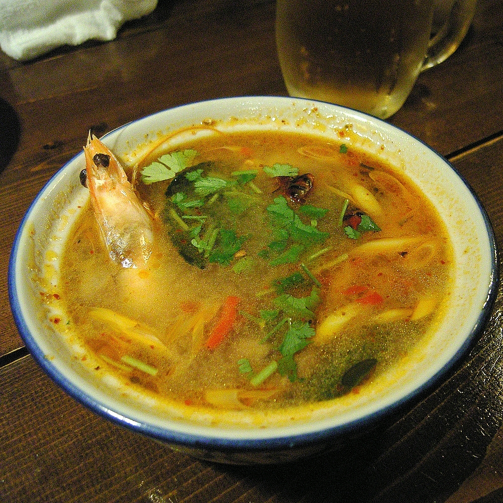 Tom yum in Kobe, Japan